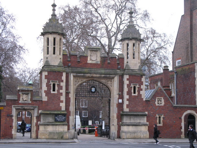 Gateway to Lincoln's Inn, off Lincoln's Inn Fields, WC2